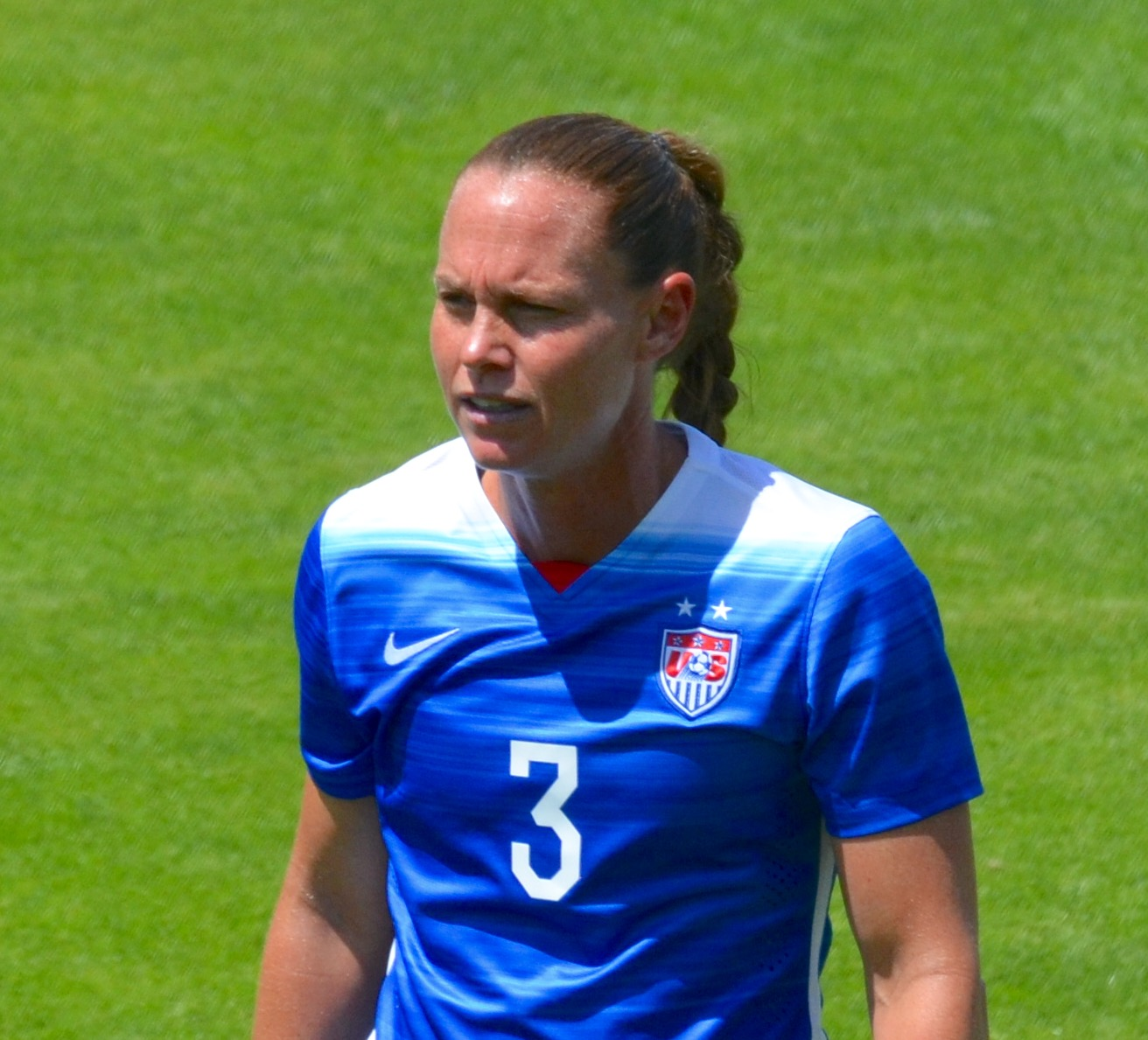 Christie Rampone of the US Women's National Team, in San Jose, California on 10 May 2015.